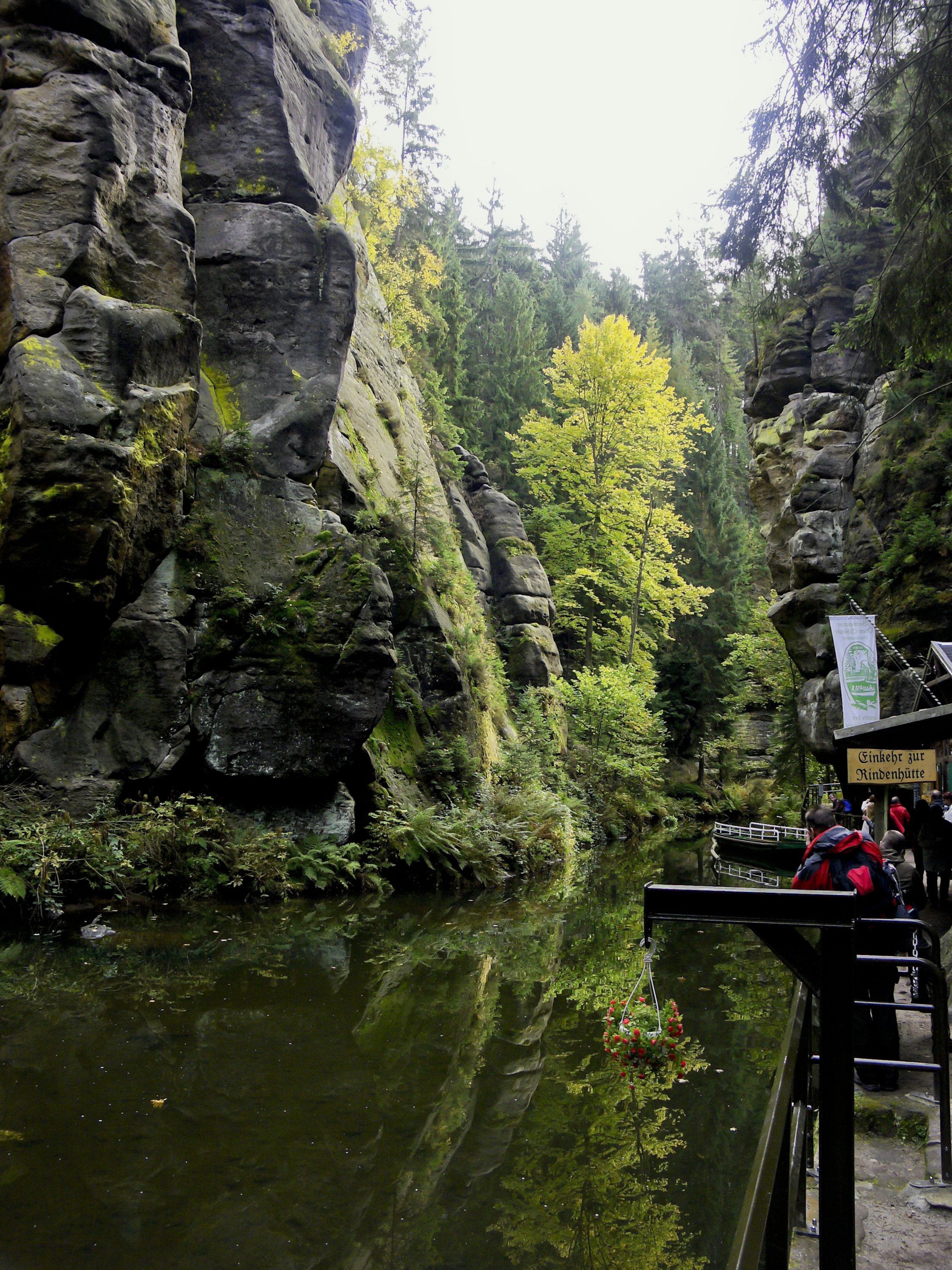 The upper sluice near Hinterhermsdorf in the Elbe Sandstone Mountains.